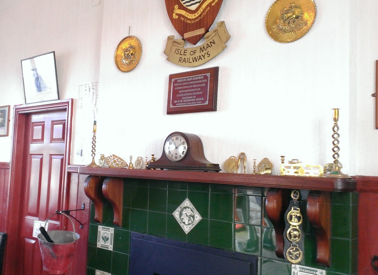 Restored waiting room at Castletown Station on the Isle of Man Railway